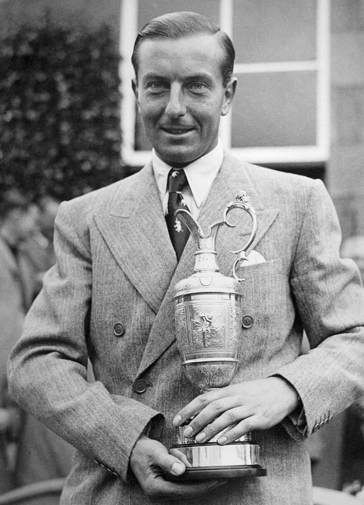 Henry Cotton is shown smiling as he holds the trophy for winning the British Open at Carnoustie Golf Course, Carnoustie, Scotland.